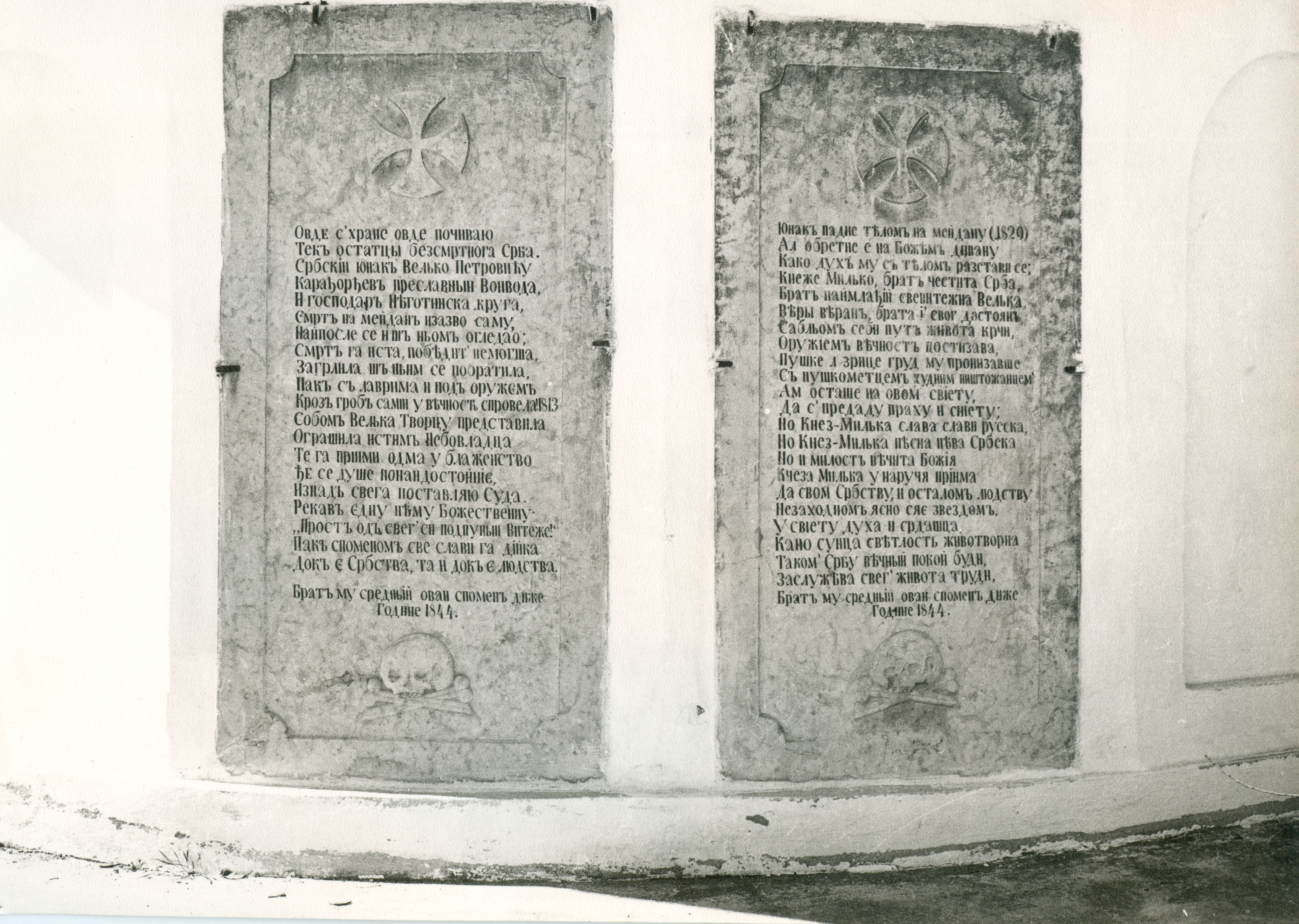 Memorial plaque to Hajduk Veljko on the Church of the Nativity of the Virgin Mary in Negotin Srpski (latinica): Spomen ploča Hajduk Veljku na Crkvi rođenja presvete Bogorodice u Negotinu